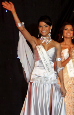 Miss Trinidad & Tobago 2008 Gabrielle Walcott during Miss World 08